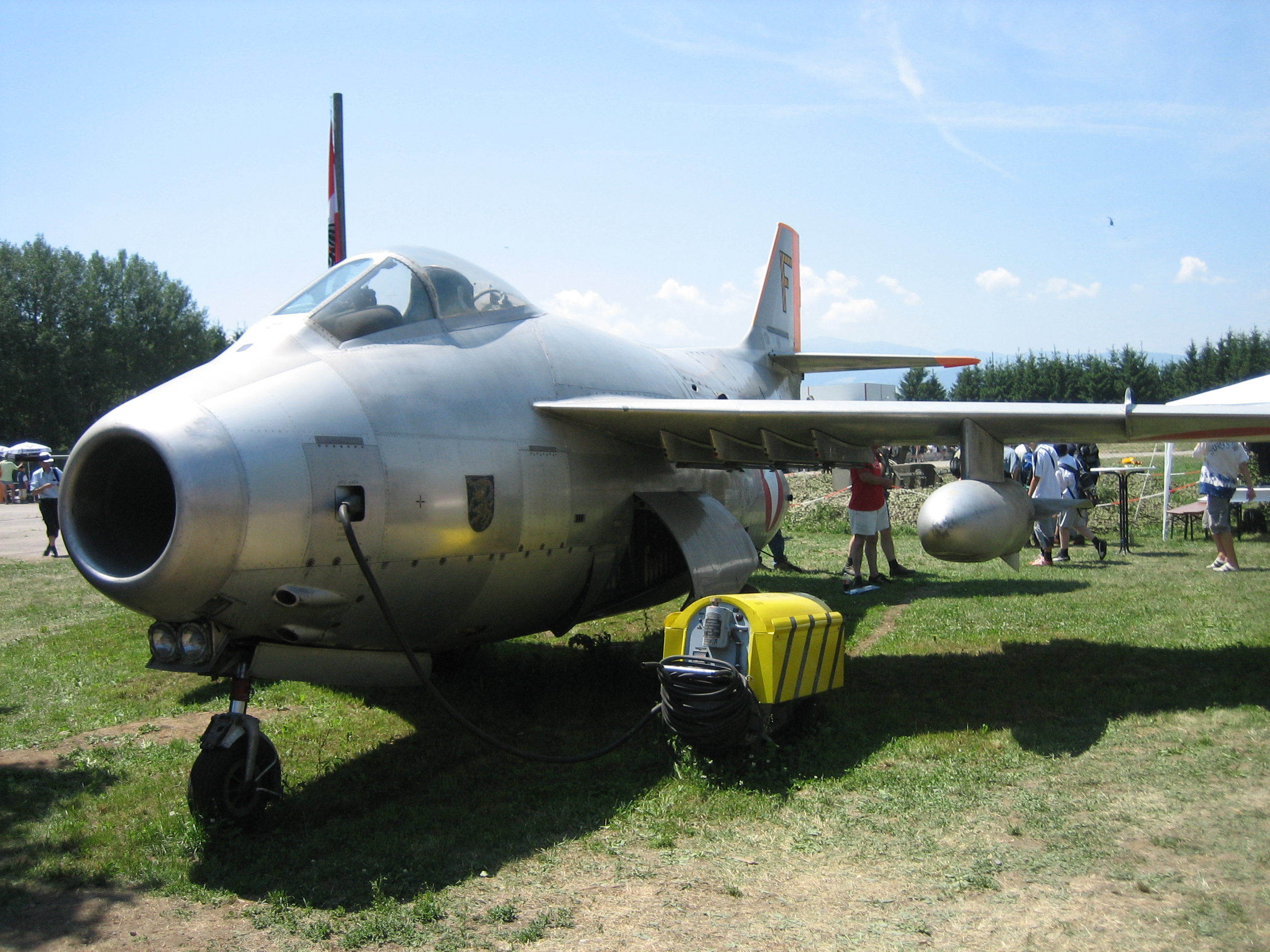 Saab J 29F Tunnan 'Yellow F' of the now disbanded 'Fighterbomber Wing' of the Austrian Air Force; the non-airworthy example is displayed at the 'Military Aviation Exhibition' at Hinterstoisser AB